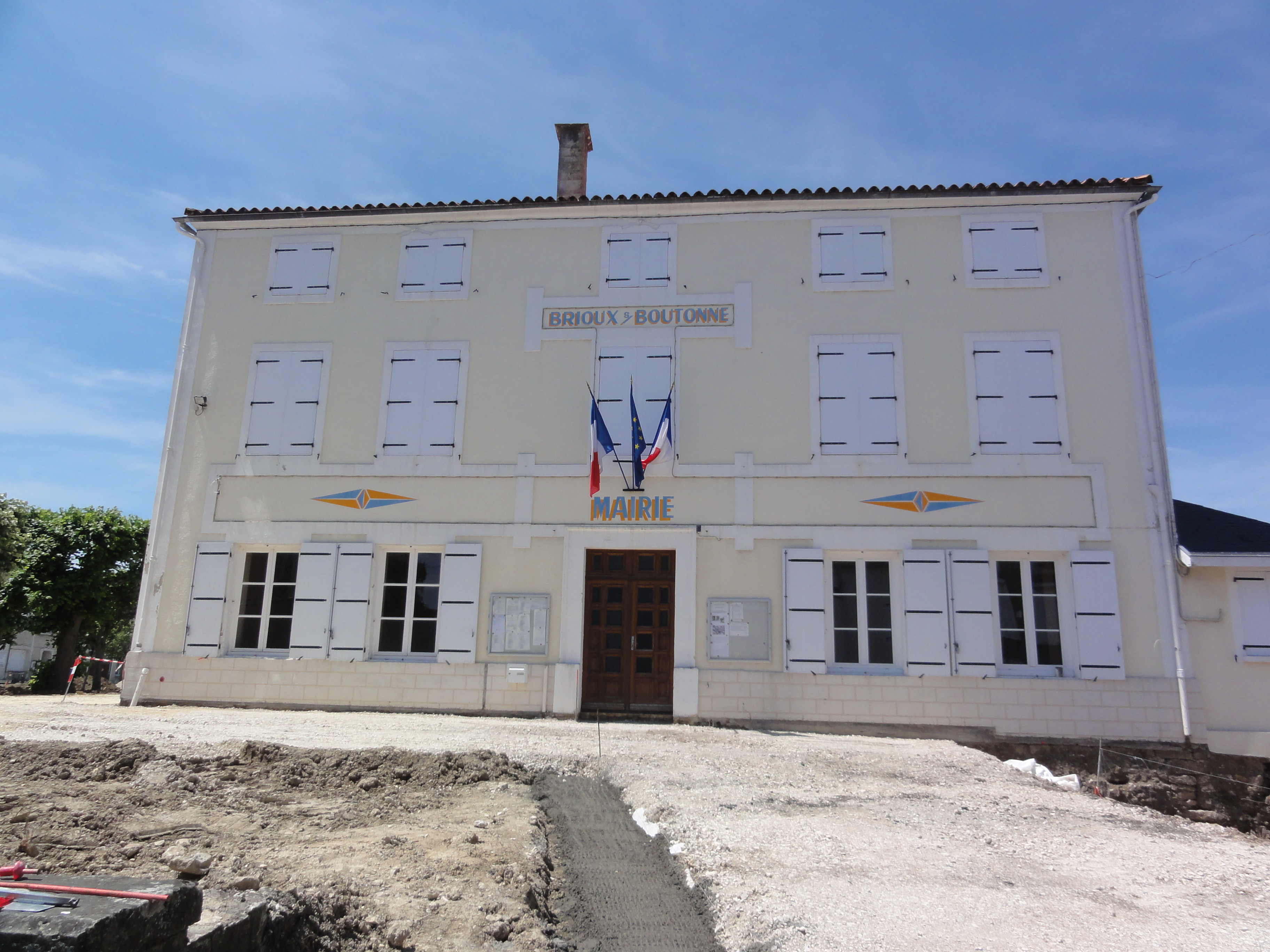 Brioux-sur-Boutonne (Deux-Sèvres) Mairie